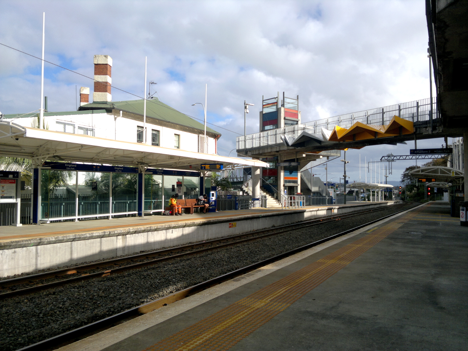 Kingsland station's platforms and overbridge in May 2014